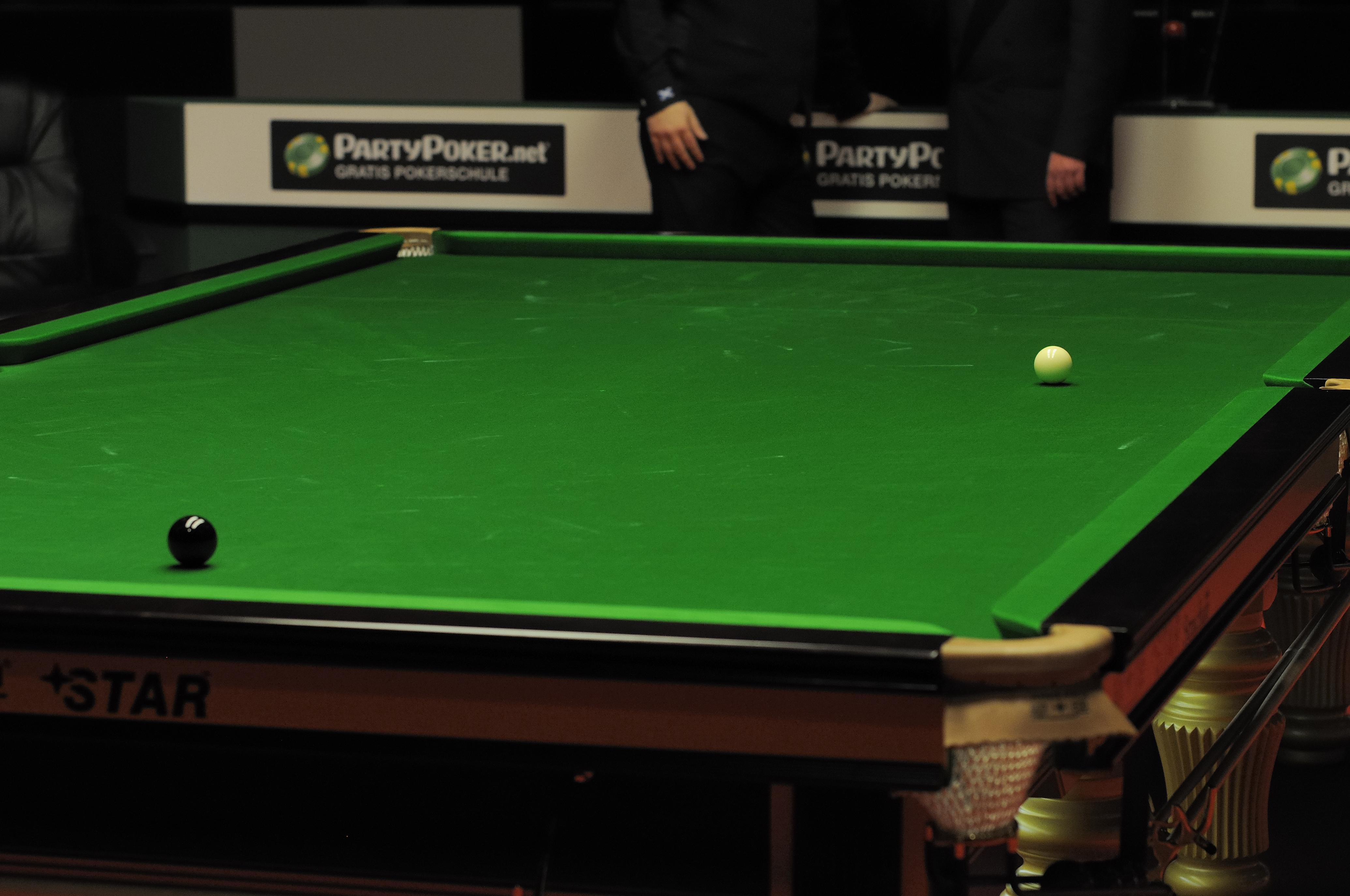 Picture taken in Berlin during the Snooker German Masters in 2011.